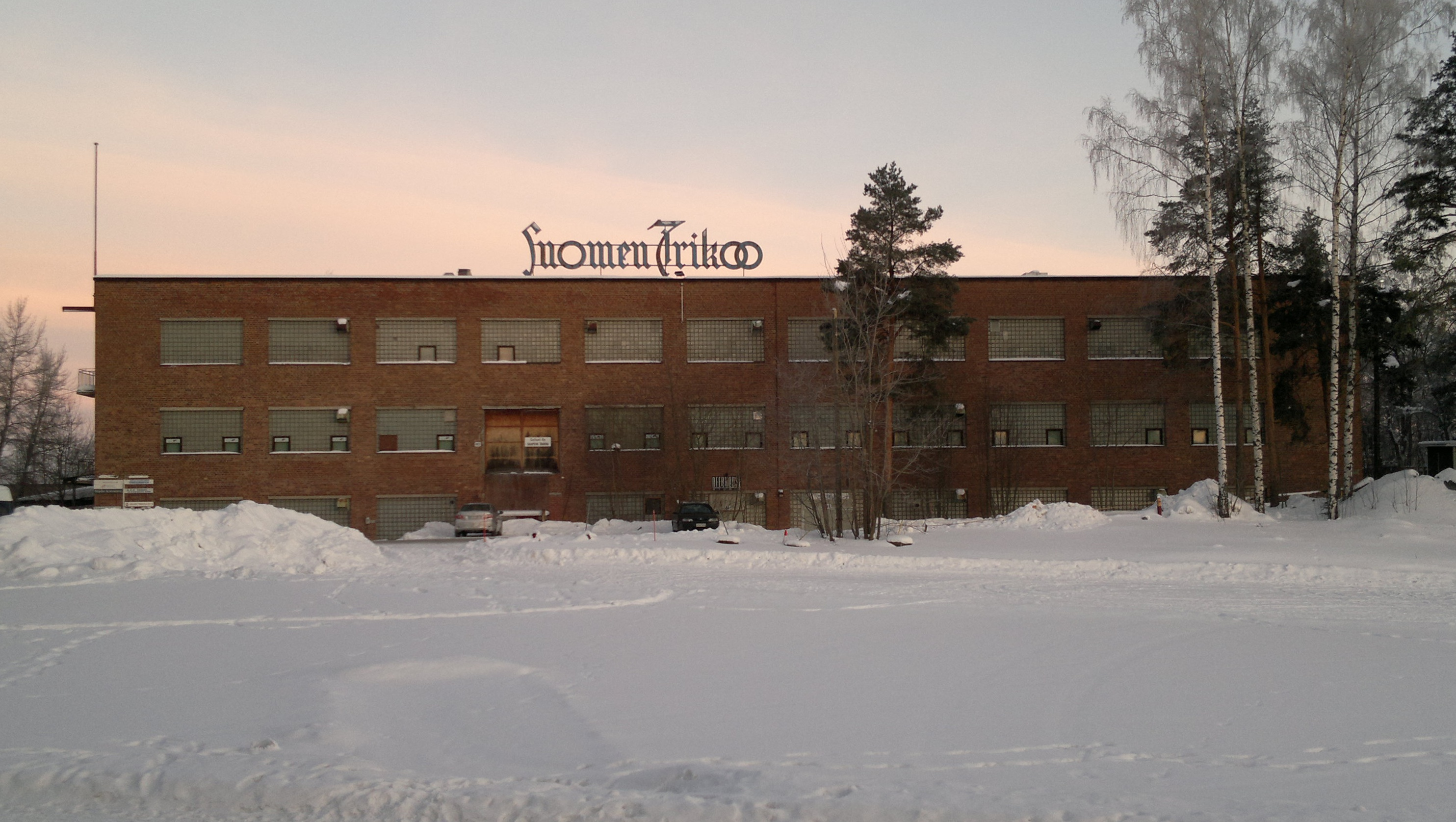 Old Suomen Trikoo factory in Särkänniemi district at Tampere Finland